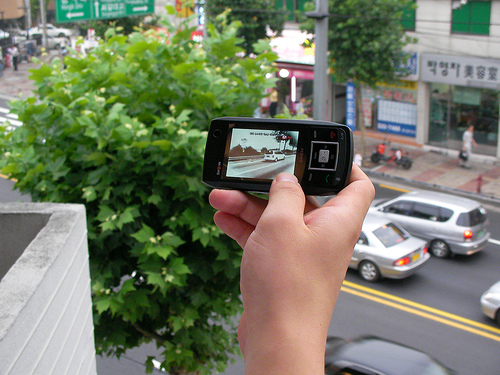 Me holding a DMB phone out of the window, watching Live Digital TV.